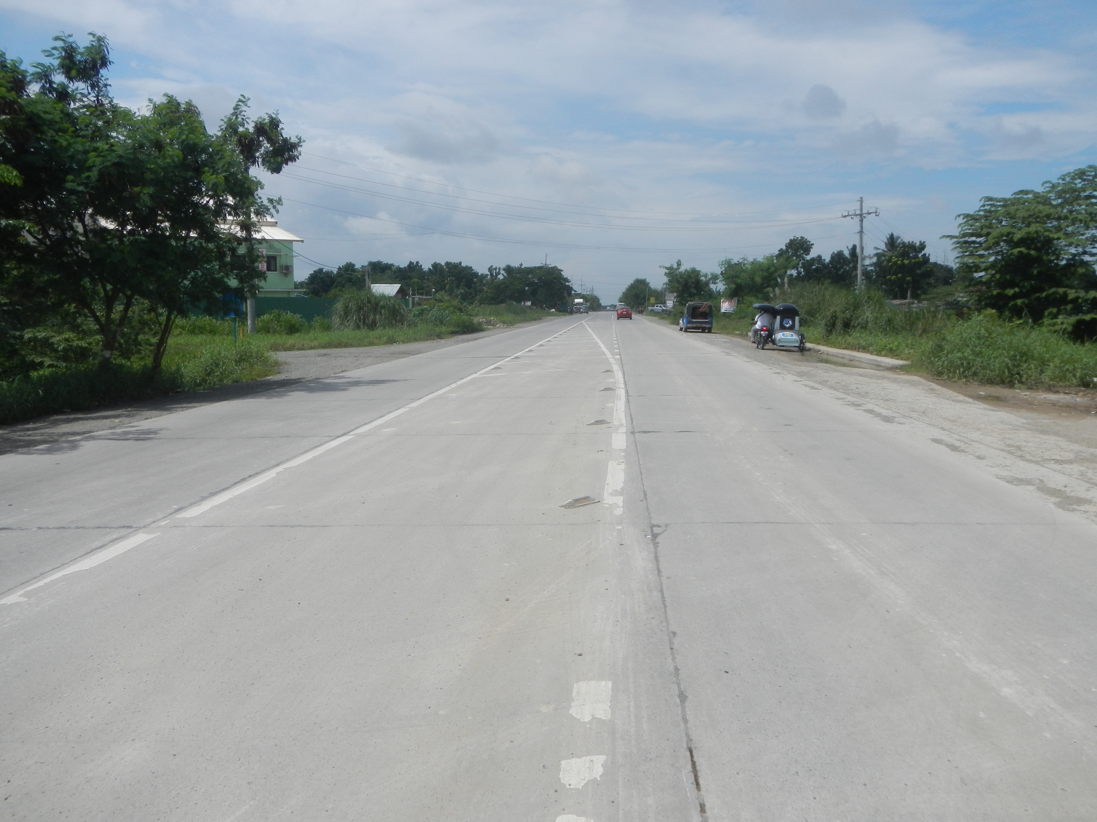 Landscape of paddy fields, grasslands, fishponds and trees (Barangays-villages - Bulihan, Plaridel & Cutcut-Tiaong, Guiguinto - 34 Northbound Balagtas Exit Half Y North Luzon Expressway - Plaridel Bypass Access Road of the San Rafael-Bustos-Plaridel-Guiguinto-Balagtas, Bulacan Bypass Arterial Road) Barangay Tiaong (Bacood), Cutcut, Guiguinto, Bulacan, beside Barangays Bulihan, Plaridel, Bulacan, Northbound Balagtas Exit Half Y North Luzon Expressway NLEx interchange Barangay Burol 1, Balagtas, Bulacan, Bulacan province towards MacArthur Highway or Manila North Road (Note: Judge Florentino Floro, the owner, to repeat, Donor Florentino Floro of all these photos hereby donate gratuitously, freely and unconditionally all these photos to and for Wikimedia Commons, exclusively, for public use of the public domain, and again without any condition whatsoever).